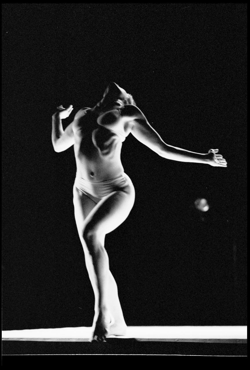 Depicted person: Saskia Höbling